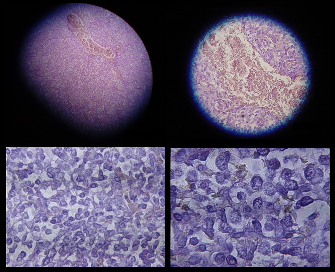 Mesothelioma is a form of cancer that is almost always caused by exposure to asbestos. In this disease, malignant cells develop in the mesothelium, a protective lining that covers most of the body's internal organs. Its most common site is the pleura (outer lining of the lungs and internal chest wall), but it may also occur in the peritoneum (the lining of the abdominal cavity), the heart,[1] the pericardium (a sac that surrounds the heart) or tunica vaginalis If cytology is positive or a plaque is regarded as suspicious, a biopsy is needed to confirm a diagnosis of mesothelioma. A doctor removes a sample of tissue for examination under a microscope by a pathologist. A biopsy may be done in different ways, depending on where the abnormal area is located. If the cancer is in the chest, the doctor may perform a thoracoscopy. In this procedure, the doctor makes a small cut through the chest wall and puts a thin, lighted tube called a thoracoscope into the chest between two ribs. Thoracoscopy allows the doctor to look inside the chest and obtain tissue samples. If the cancer is in the abdomen, the doctor may perform a laparoscopy. To obtain tissue for examination, the doctor makes a small incision in the abdomen and inserts a special instrument into the abdominal cavity. If these procedures do not yield enough tissue, more extensive diagnostic surgery may be necessary.